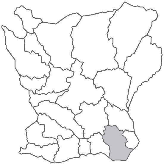 Map describing the location of Ingelstad Hundred in the province of Skåne, Sweden.